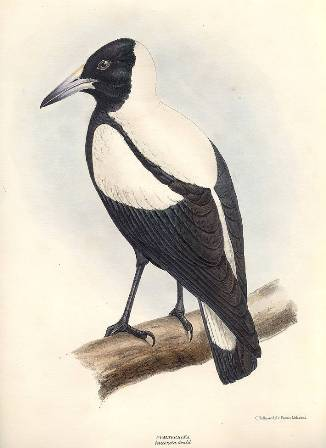 Australian Magpie (Gymnorhina tibicen), Illustration by G.R. Gray, The Genera of Birds, 1844-49.